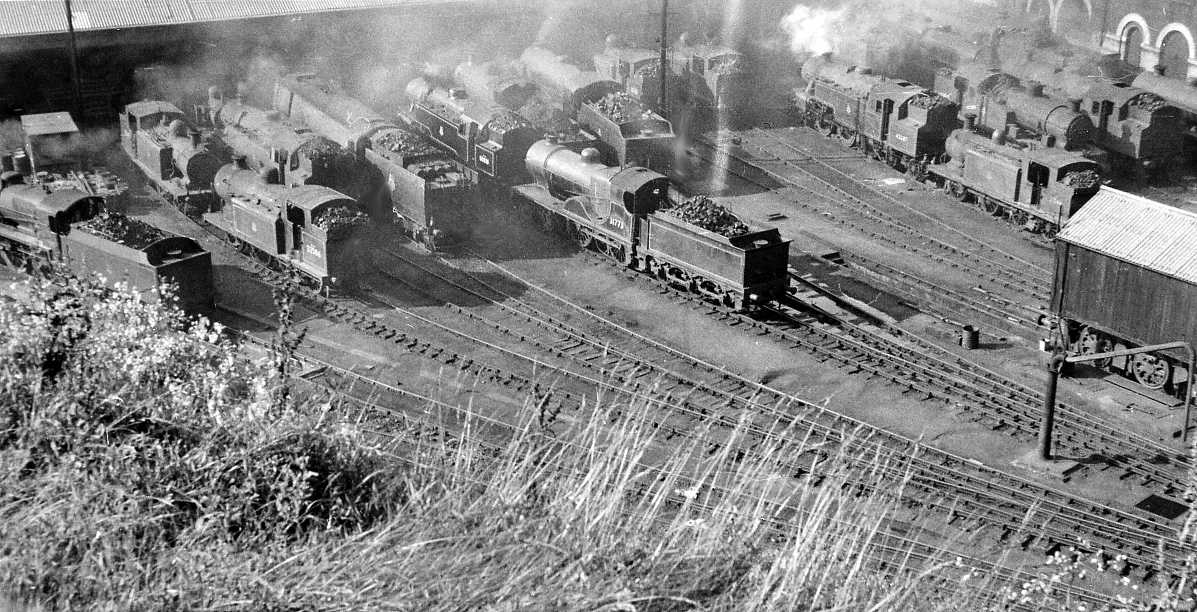 Brighton Locomotive Depot seen from above View NE from Howard Place - an incomparable viewpoint: ex-LB&SCR main Depot. Even after electrification of all the main lines into Brighton, locomotives still remained for freight duties, for the remaining non-electrified passenger services and to handle locomotives coming to the Works. In 1954 (BR code 75A) the allocation was a varied mix - evident in the view - of 57 steam locomotives:- 5 4-6-2, 2 4-4-2, 6 2-6-0, 6 0-6-0, 10 2-6-4T (5 LMS-type, 5 BR Standard), 2 0-8-0T, 16 0-6-2T, 4 0-6-0T and 6 0-4-4T.